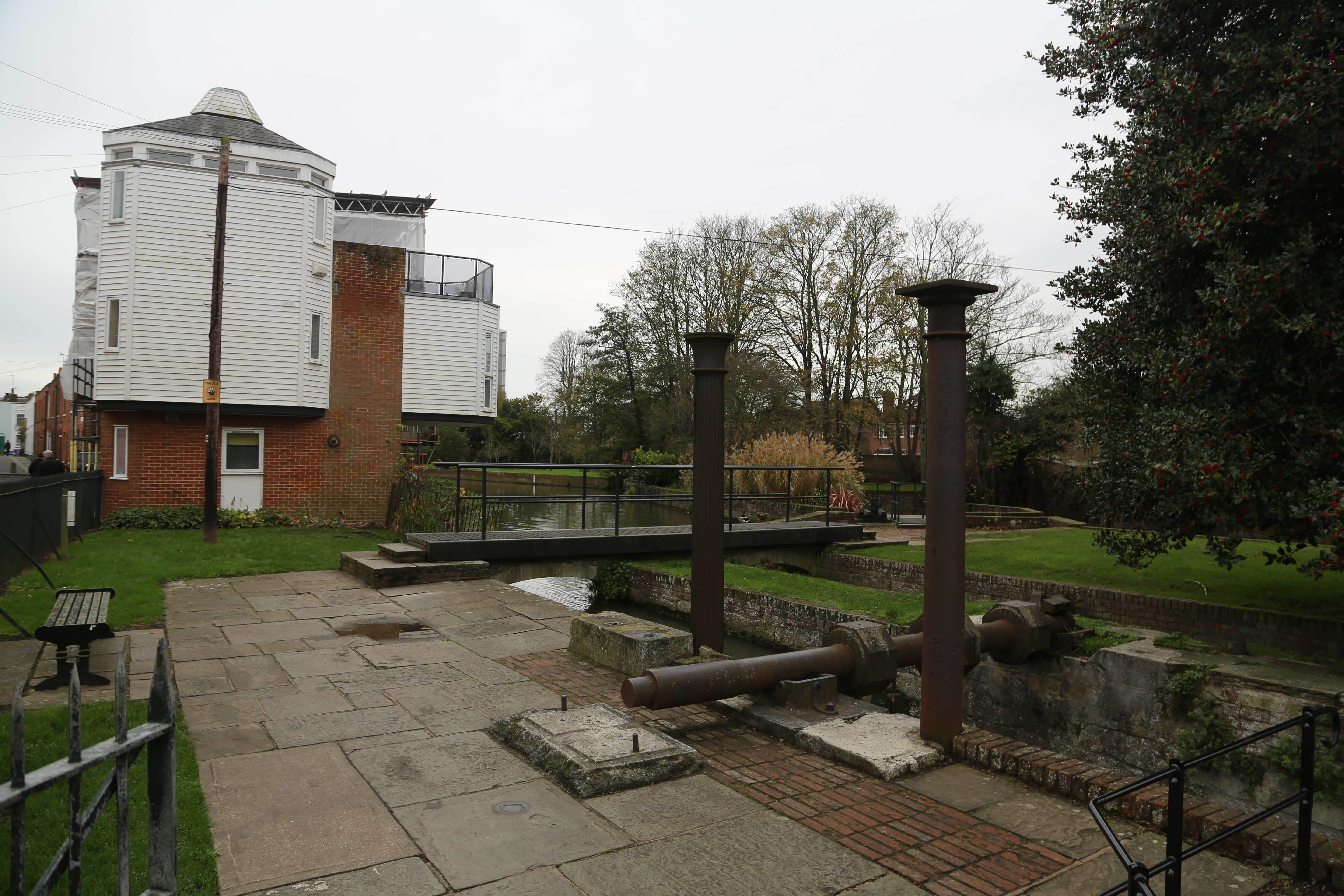 Photo of the remains of Abbott's (City, Denne's) Mill, Canterbury